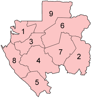 Map of the provinces of Gabon, numbered in French (native language) alphabetical order, compatible with English and ISO. Estuaire Haut-Ogooué Moyen-Ogooué Ngounié Nyanga Ogooué-Ivindo Ogooué-Lolo Ogooué-Maritime Woleu-Ntem